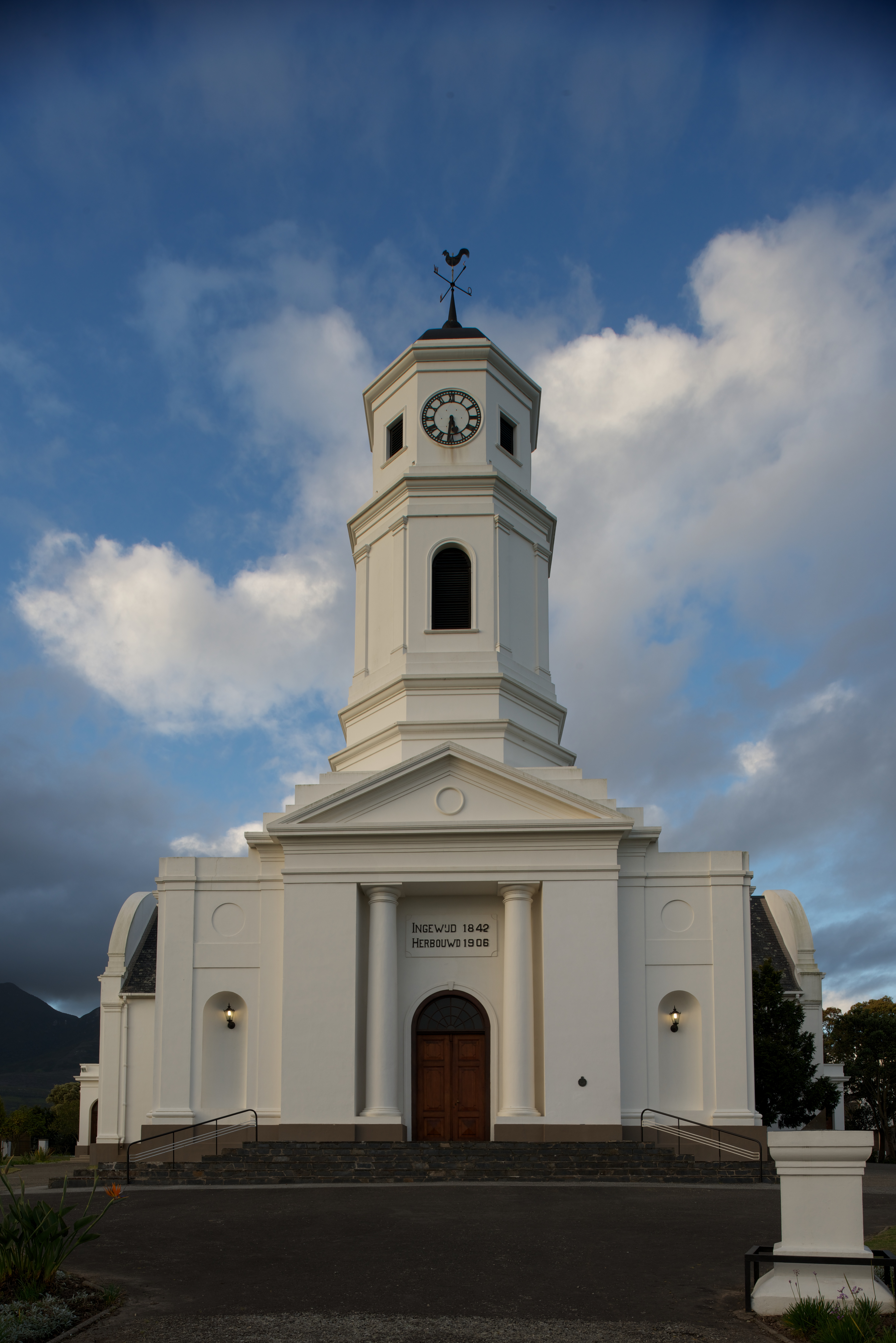 This is the frontal aspect the Dutch Reformed Mother Church George This media shows a South African Protected Site with SAHRA file reference 9/2/030/0016.